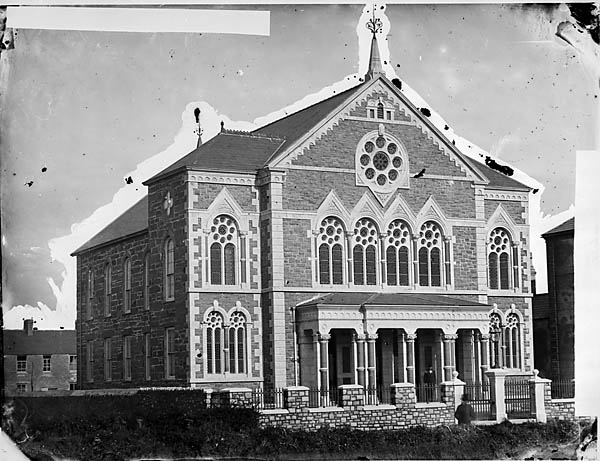 1 negative : glass, wet collodion, b&w ; 16.5 x 21.5 cm.